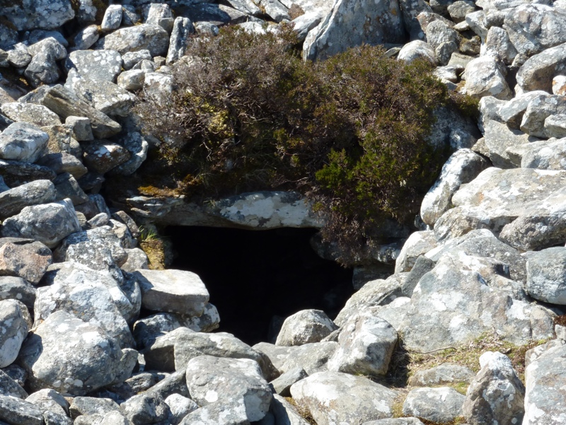 Barpa Langais, North Uist, Outer Hebrides, Scotland - entrance